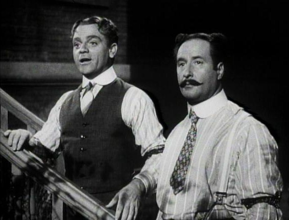 Frame from the public domain trailer for Warner Bros. 1941 film Strawberry Blonde showing James Cagney and George Tobias